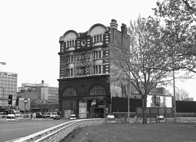 South London Press building and Elephant & Castle tube station Photographed in 1981